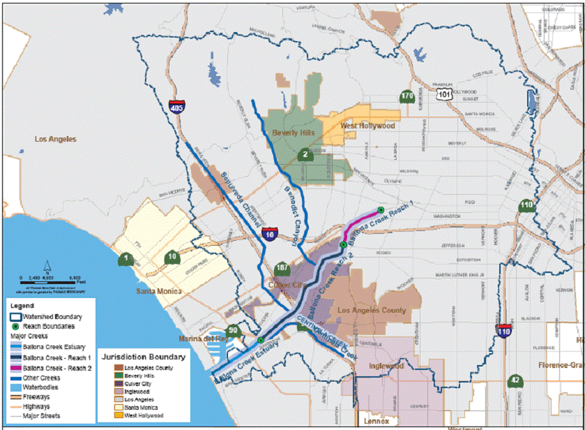 map of the Ballona Creek Watershed - Los Angeles County, southern California.